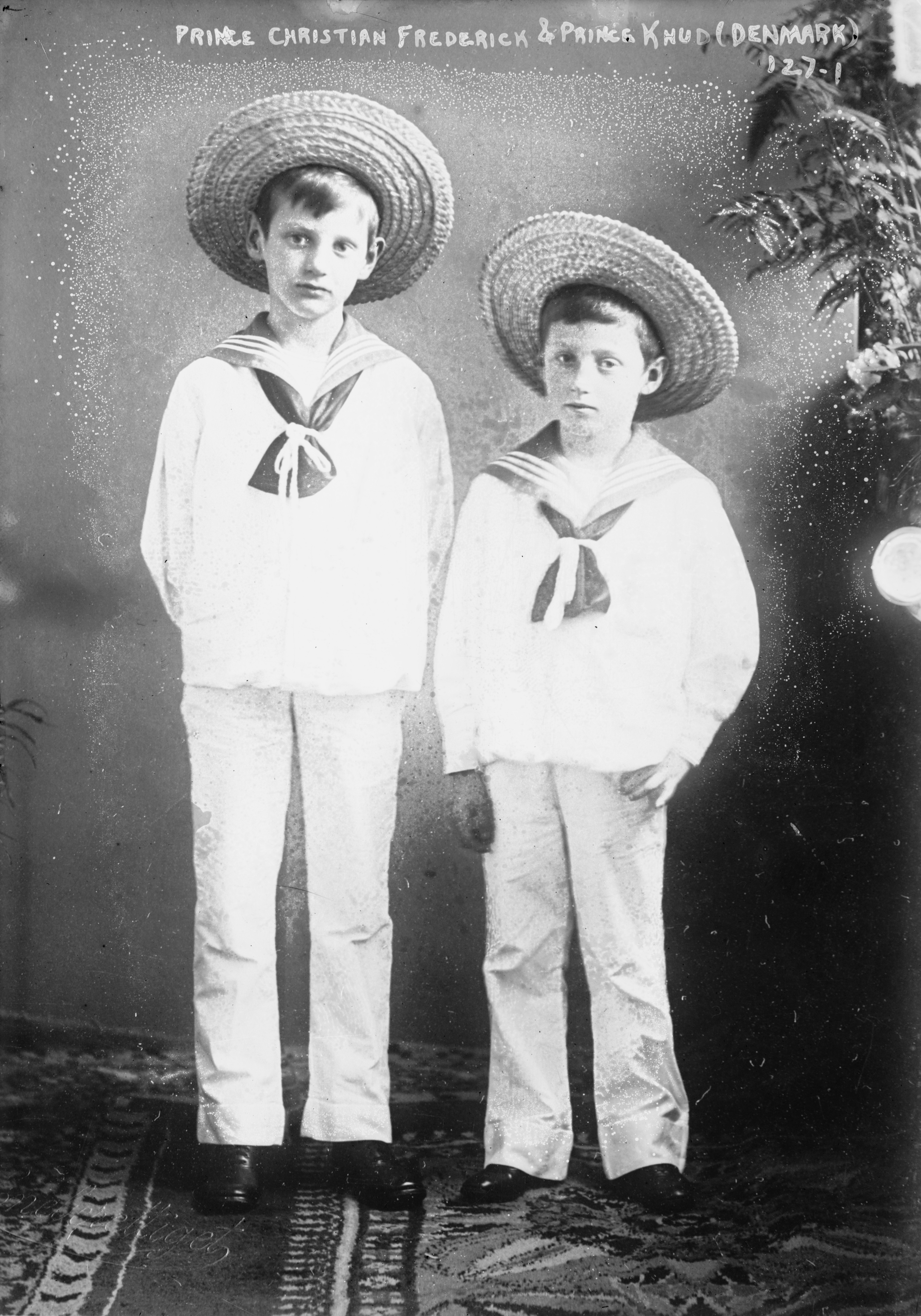 Prince Christian Frederick and Prince Knud of Denmark in sailor suits.